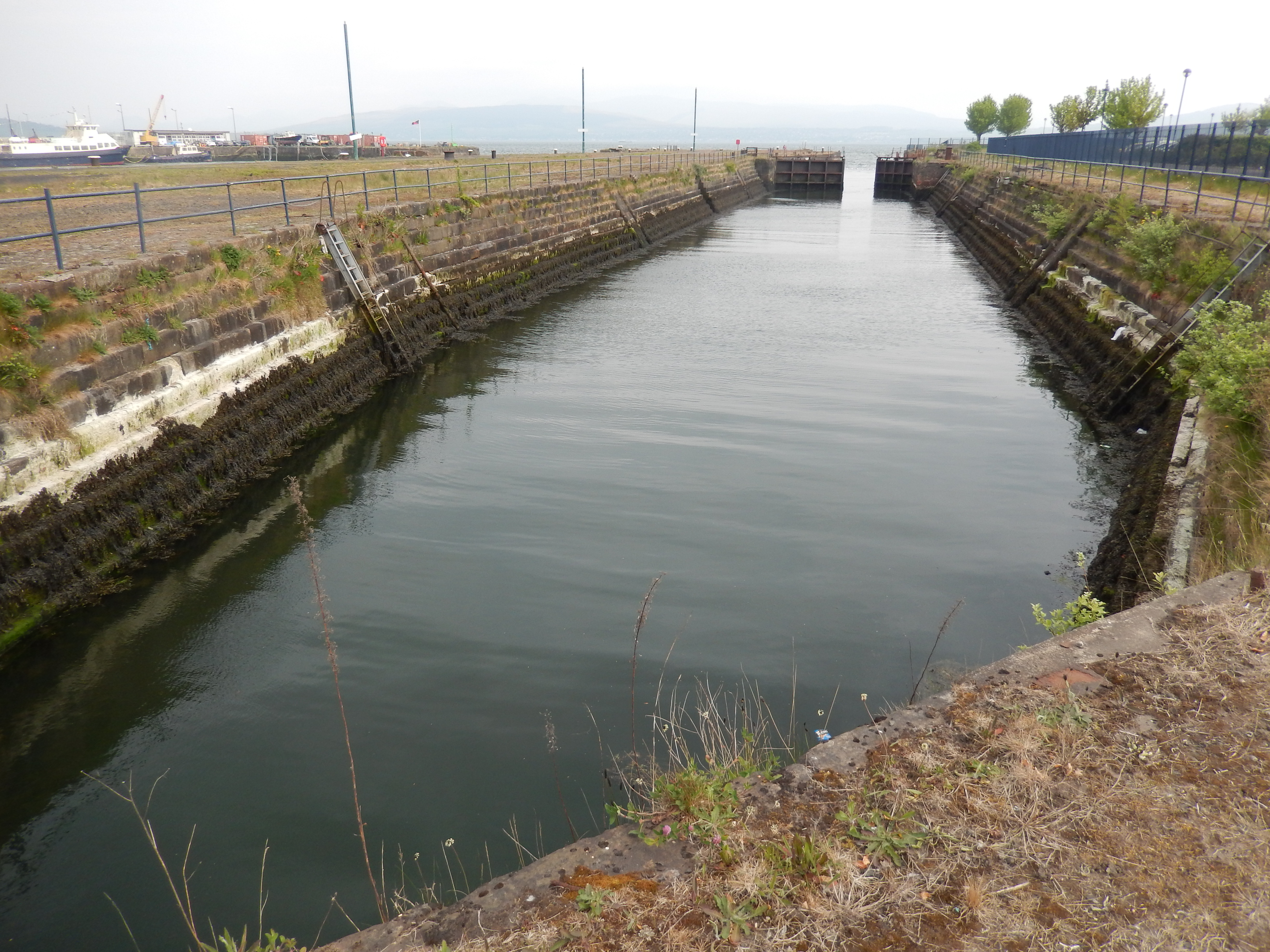 Scott’s Dry Dock, Greenock